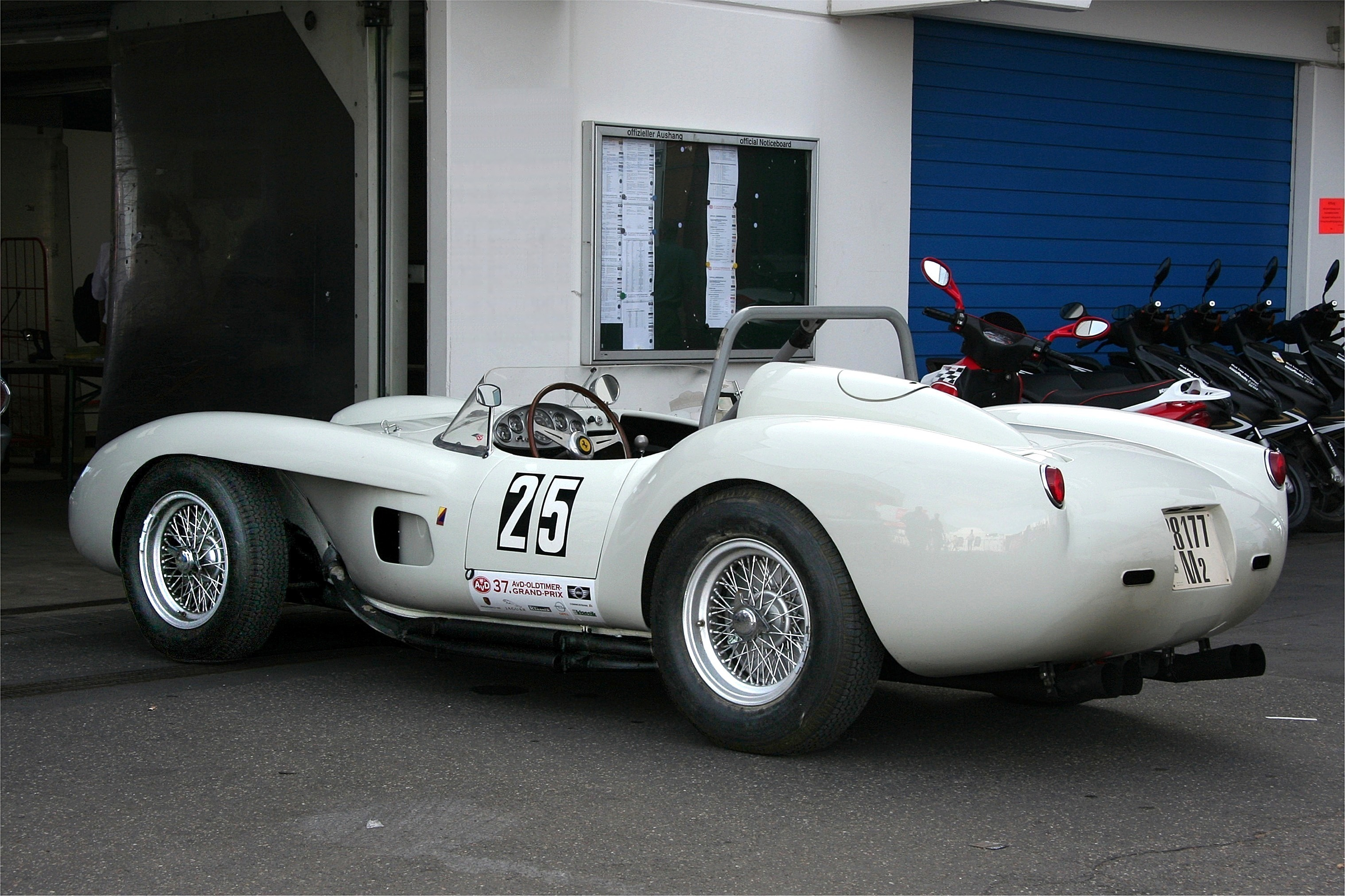 Replica of a Ferrari 250 Testa Rossa, built in Holland in the 80s/90s by Paul Schouwenburg who claimed it was the original 0720TR.[1] Here in white in August 2009, but was green in March, 2009 (same license plate, "27760 M2").[2] As of May 12, 2018, this vehicle is listed in a dutch registry as a replica/"recreation",[3] and as of 2018 in dutch ownership ("AR-07-54"),[4] strangely enough, first registered June 30, 1958. Dutch registration Aug 30, 2010.[5]